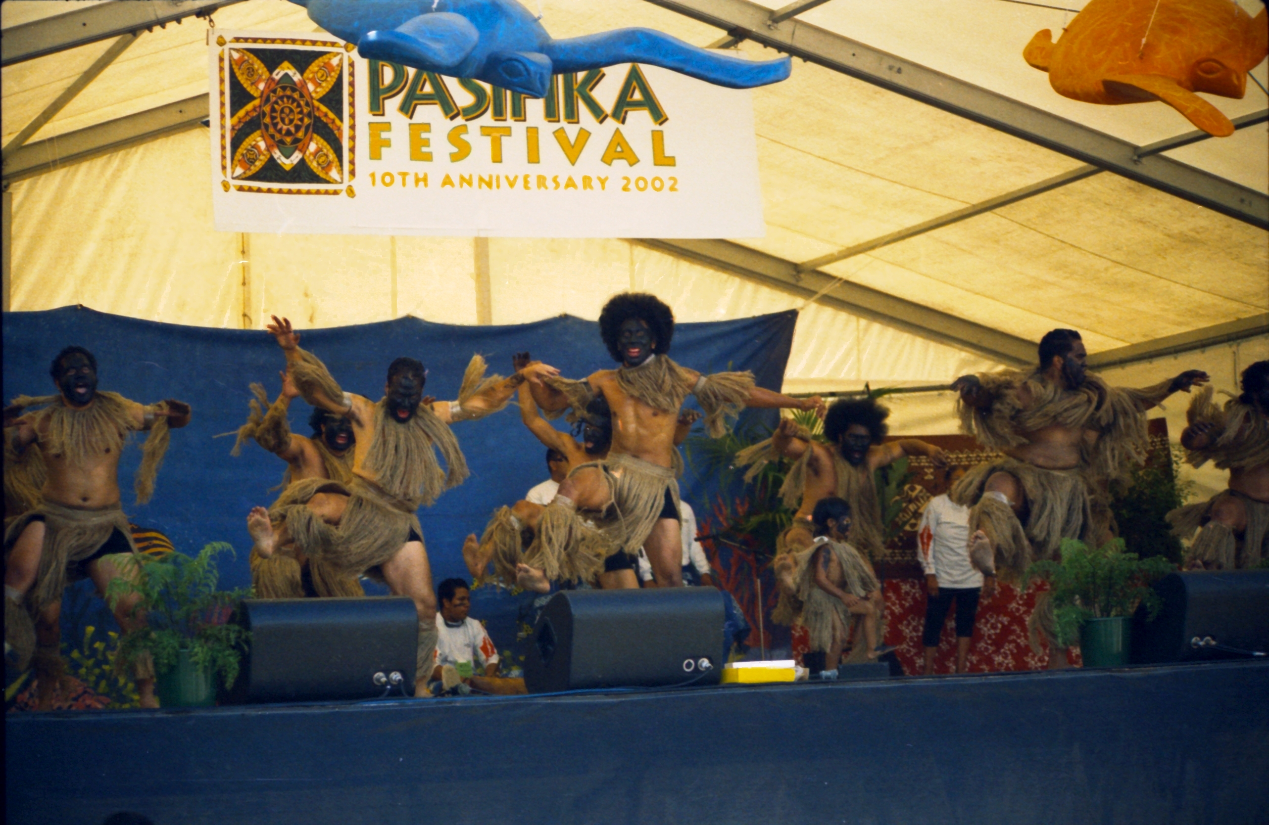 Niuean dancing at Pacifika Festival (2002)